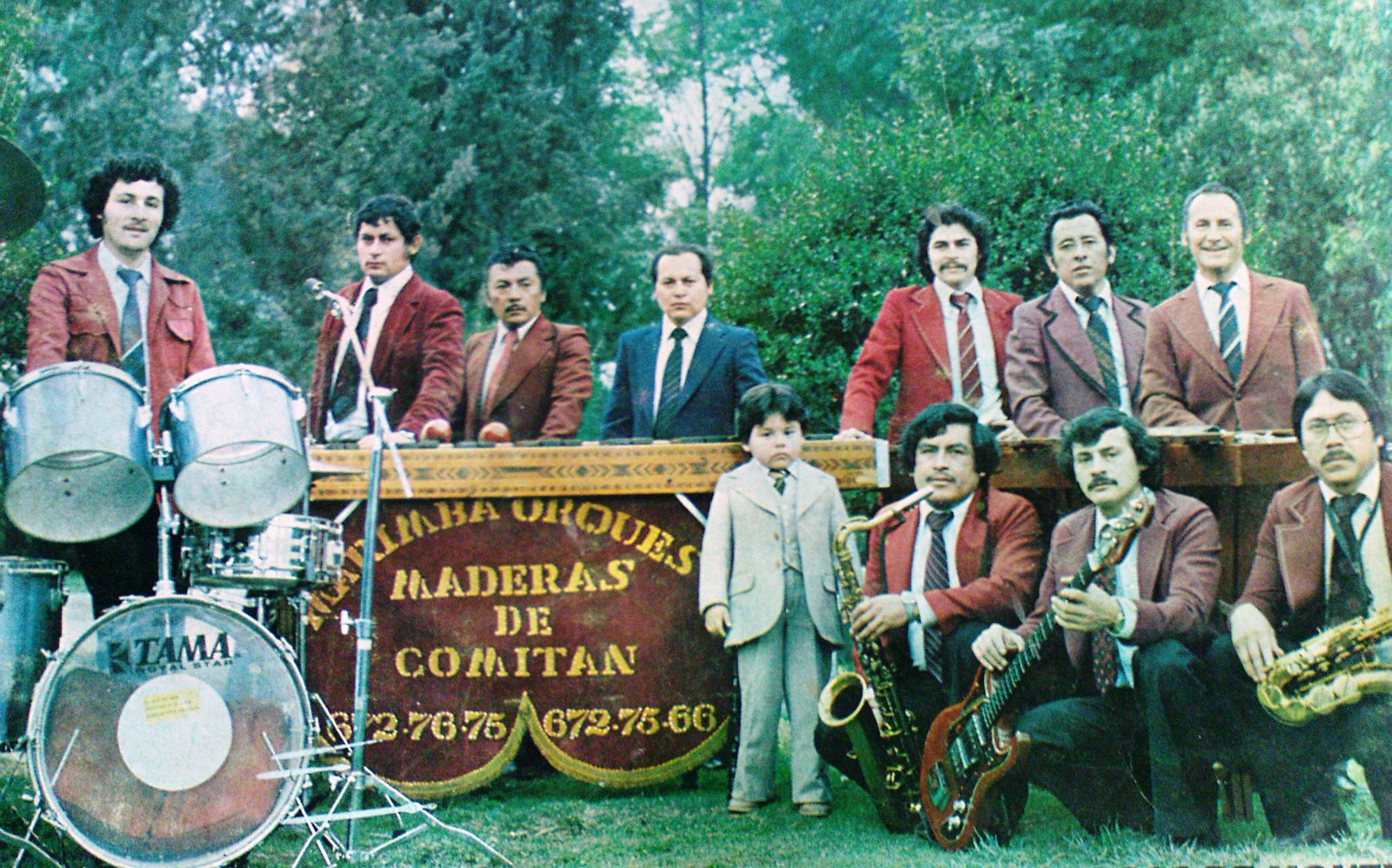 Marimba Orquesta in 1976